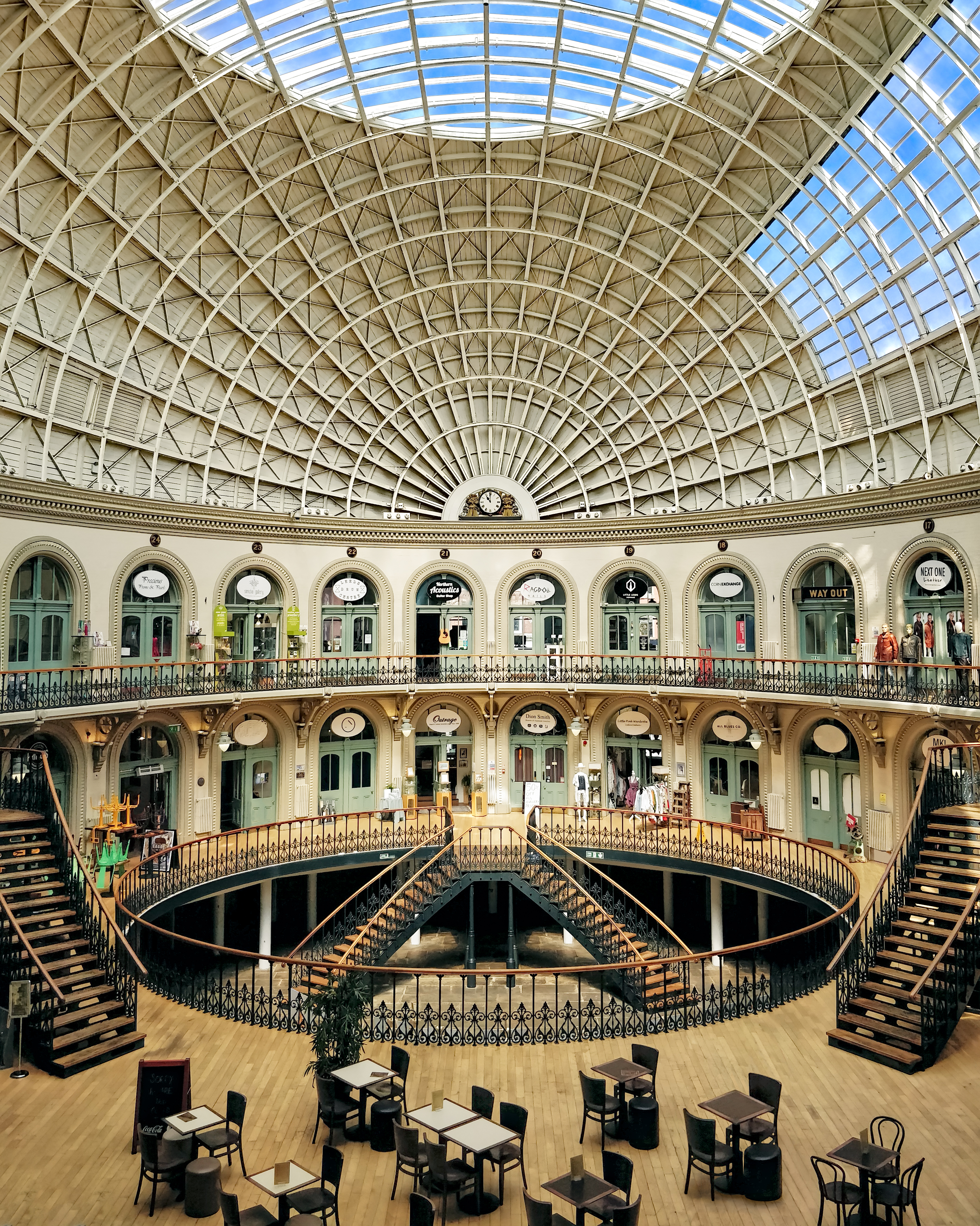 I took this photo in the Leeds Corn Exchange building early on a summer morning as the arcades where beginning to open. I wanted to capture the shape of the roof and the two tiers of arcade shops, as well as the steps that join the two.